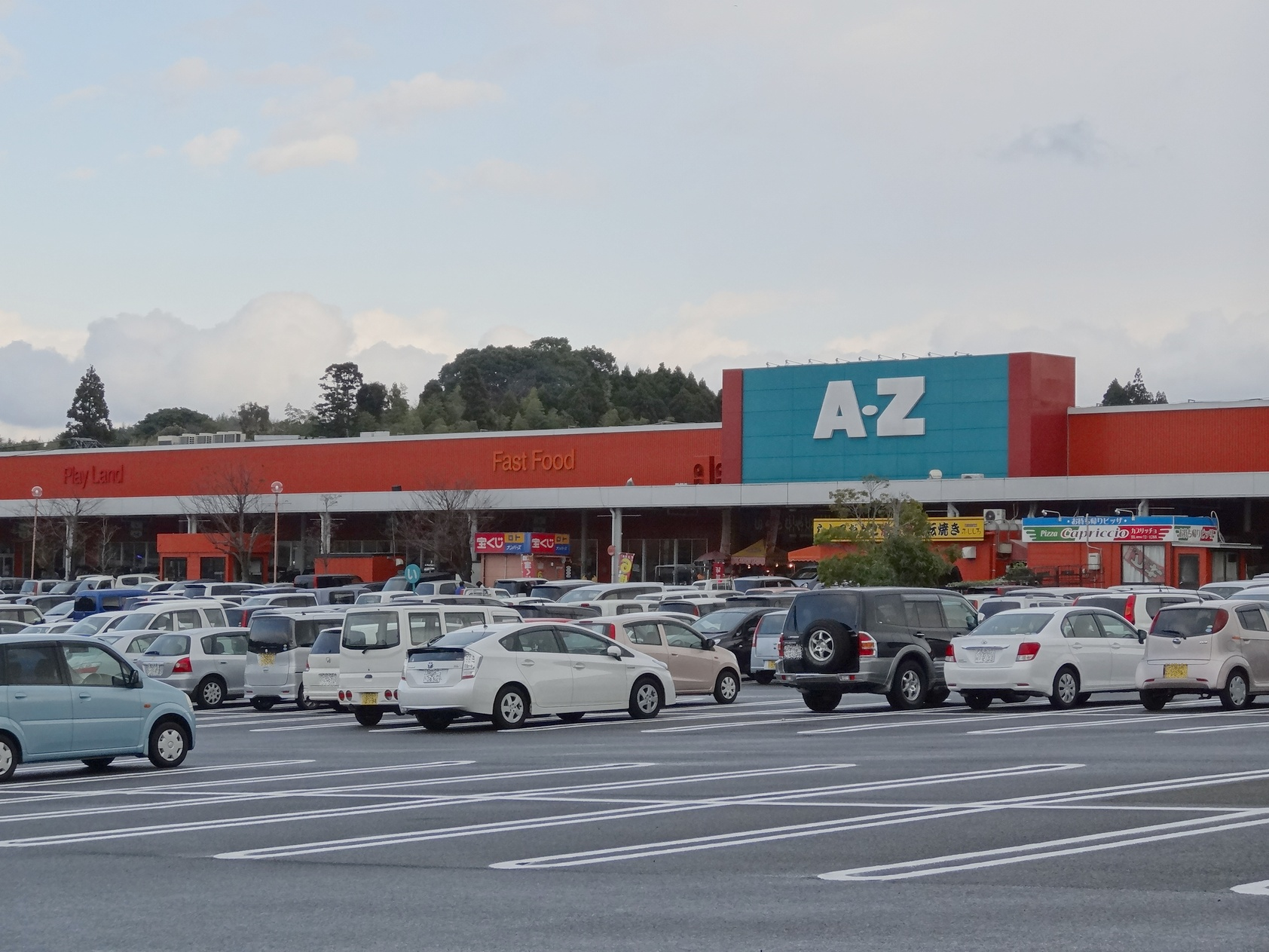 A-Z Akune is a famous Shopping Center in Akune City, Kagoshima, Japan.